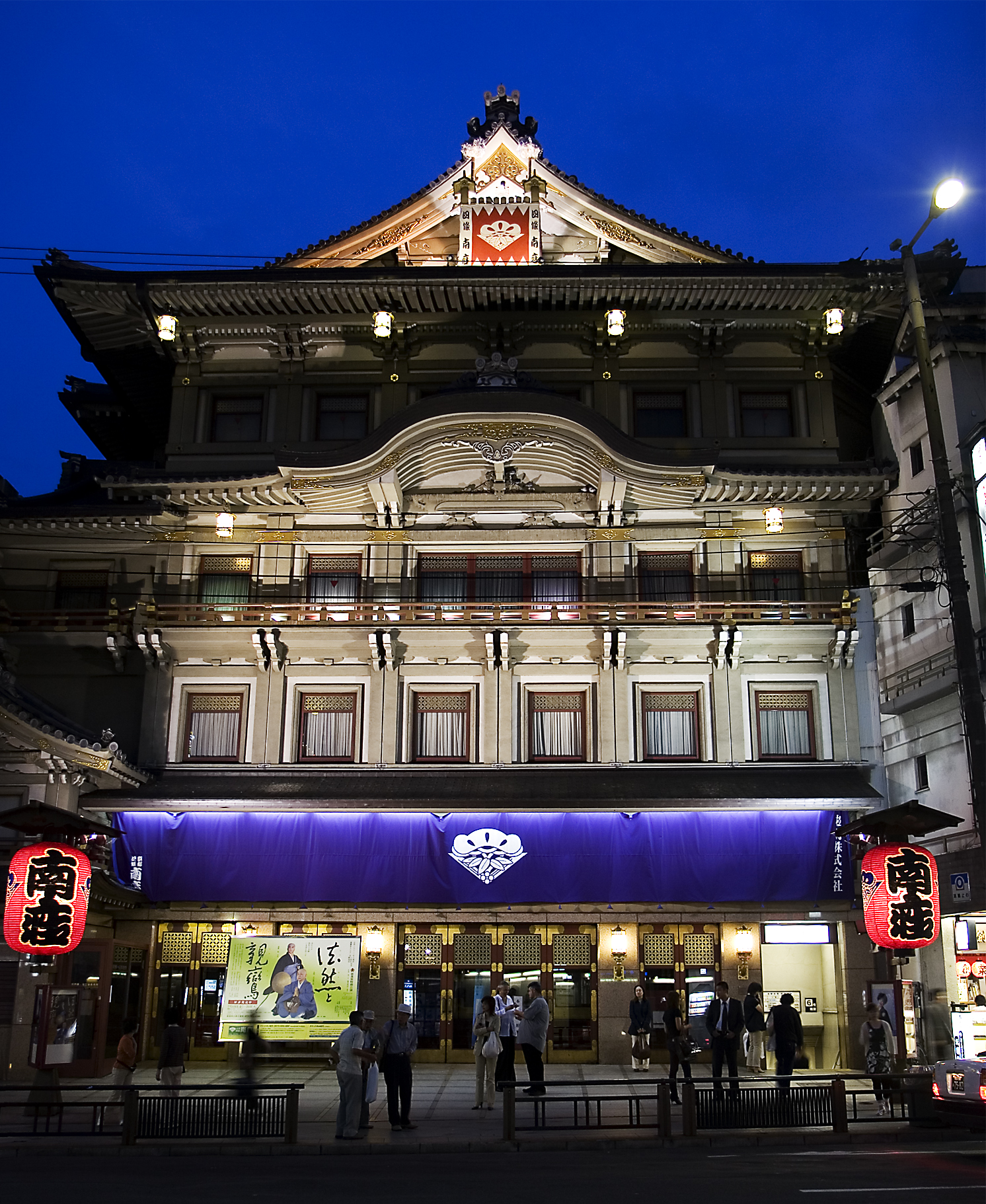 Minamiza Theatre, Kyoto. This is the world's oldest extant Kabuki theatre.